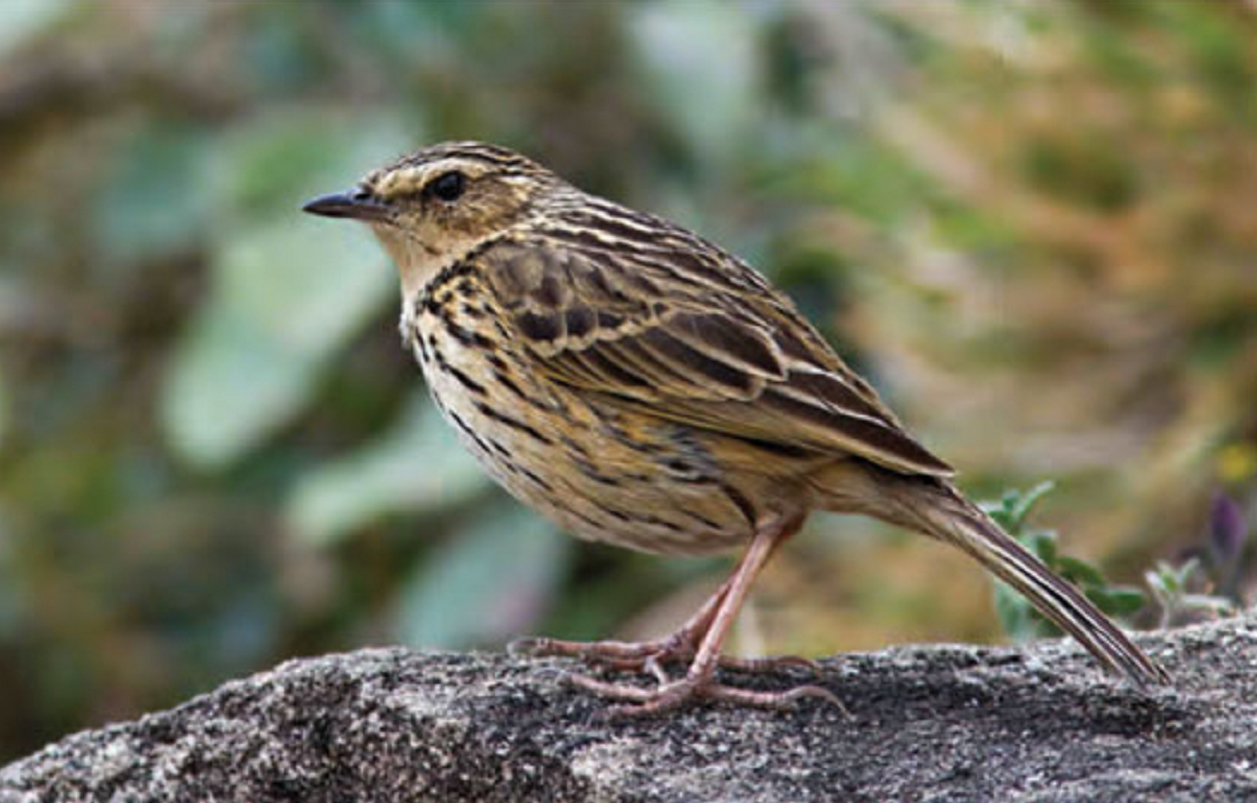 Nilgiri Pipit Anthus nilghiriensis, Nilgiri Hills, India.